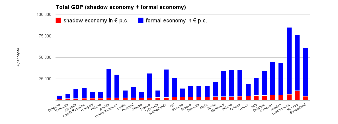 The total national GDP and its formal and informal (shadow economy) component per capita. The numbers are generated dividing national shadow economy data ("The Shadow Economy in Europe 2013, Friedrich Schneider, University of Linz) by official population data (EUROSTAT).